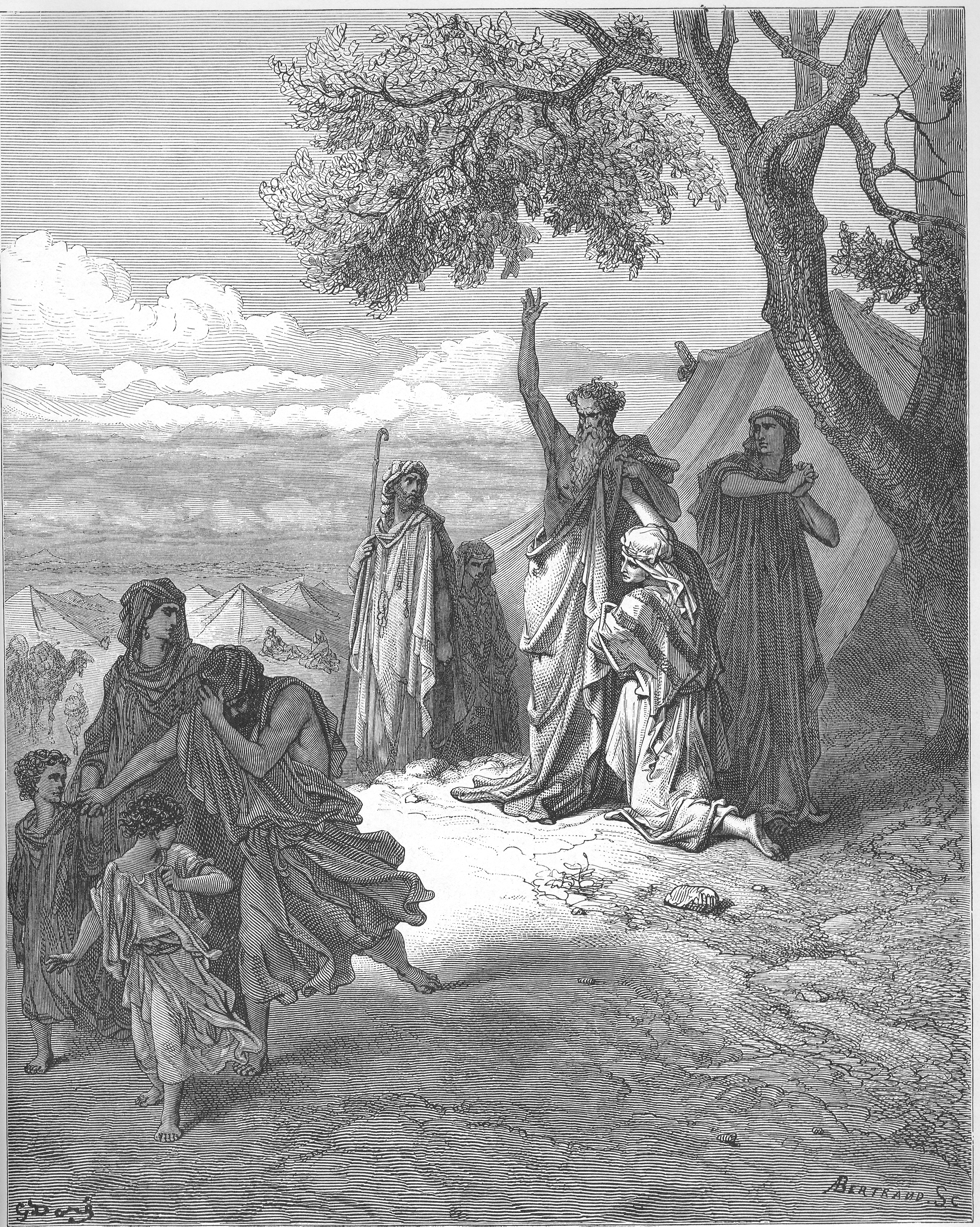 Noah Curses Ham and Canaan (Gen. 9:18-27)